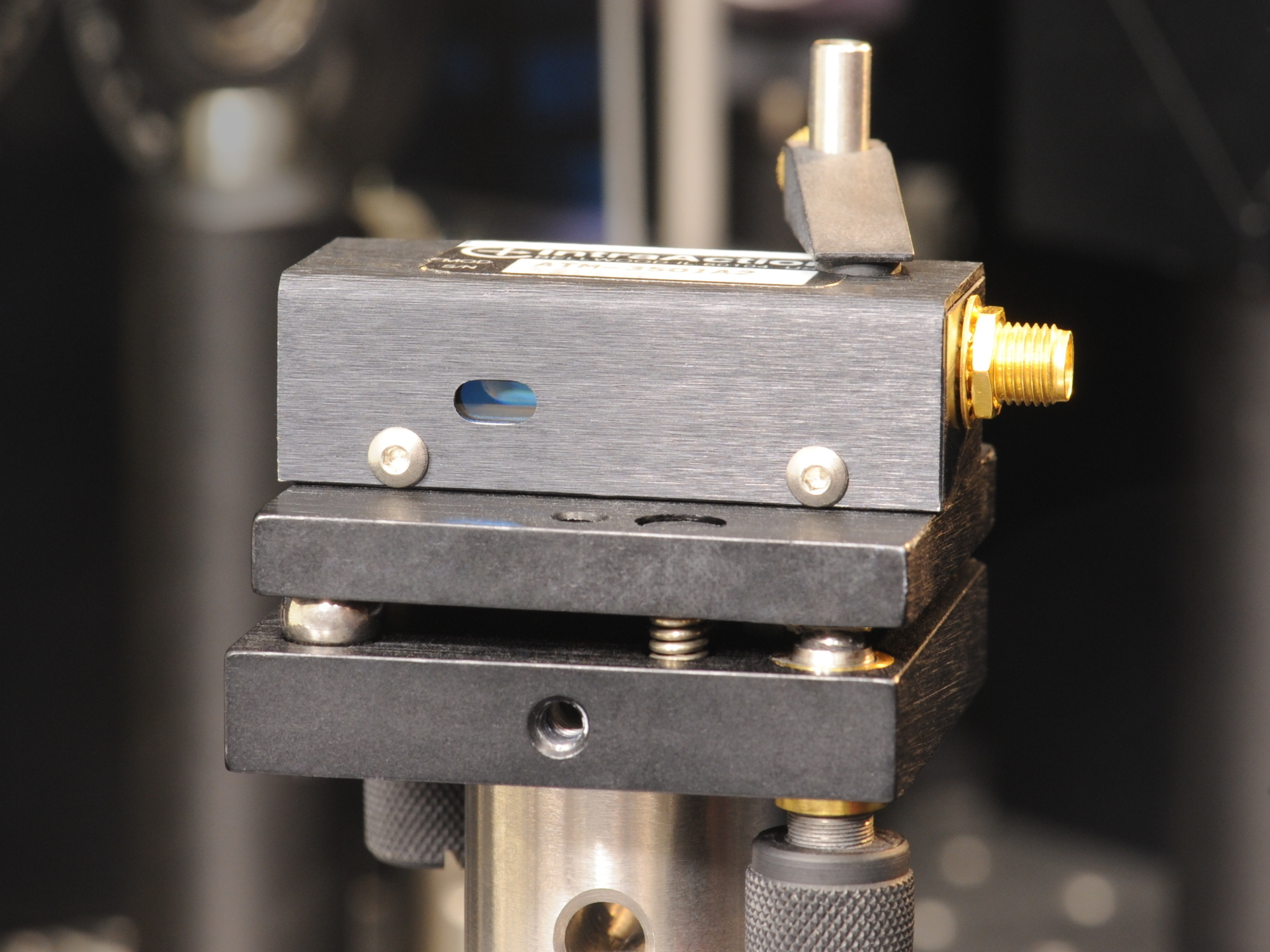 Photograph of an acousto-optic modulator ATM-3501A2 for optical wavelength modulation in the 100MHz range.